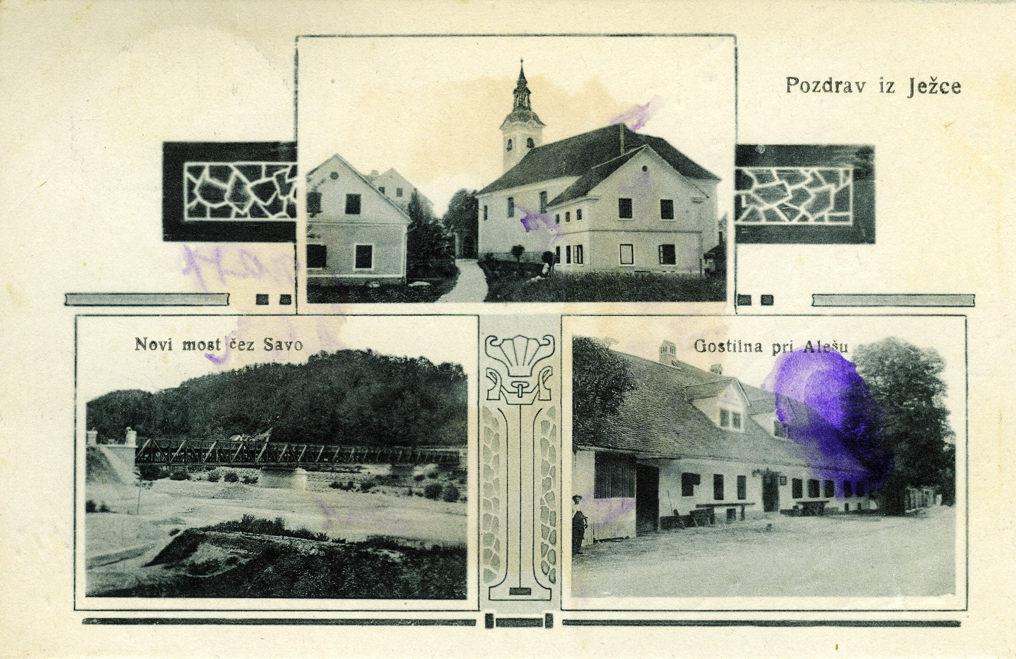 Postcard of Ježica.